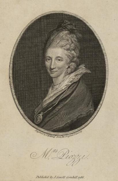 A portrait from the Welsh Portrait Collection at the National Library of Wales. Depicted person: Hester Thrale – Welsh author and salon-holder